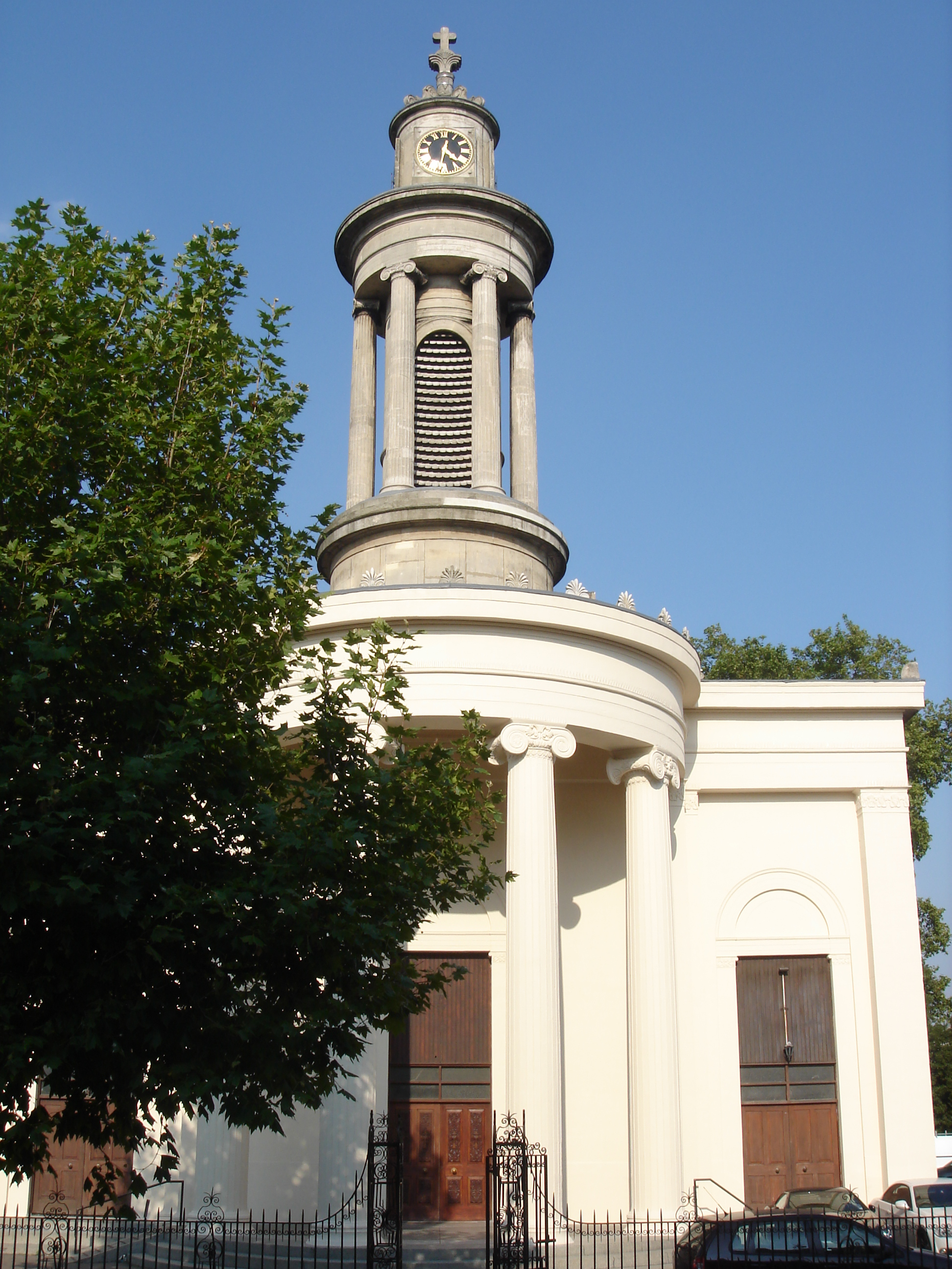 All Saints Greek Orthodox Cathedral